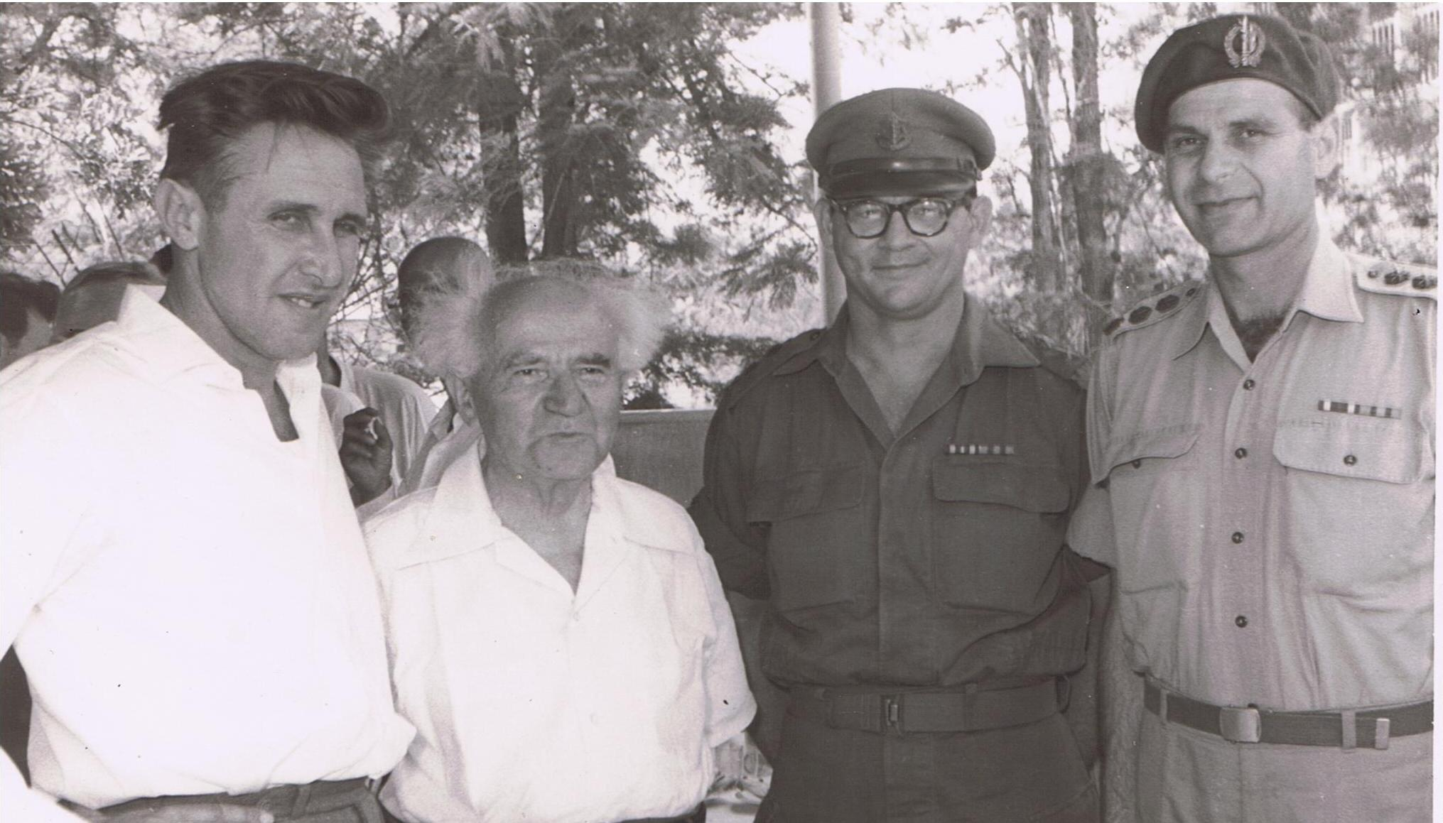 Jenka Ratner (17 August 1909 - March 25, 1979) was an Israeli engineer and inventor, founder of the science force, was received twice Israel Defense Prize. Jenka Ratne and Michael Shore in 1959 at Israel Defense Prize Ceremony, with David Ben-Gurion and Haim Laskov.